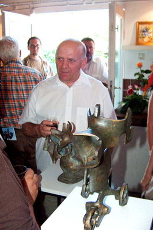 Joseph Petruk - artist